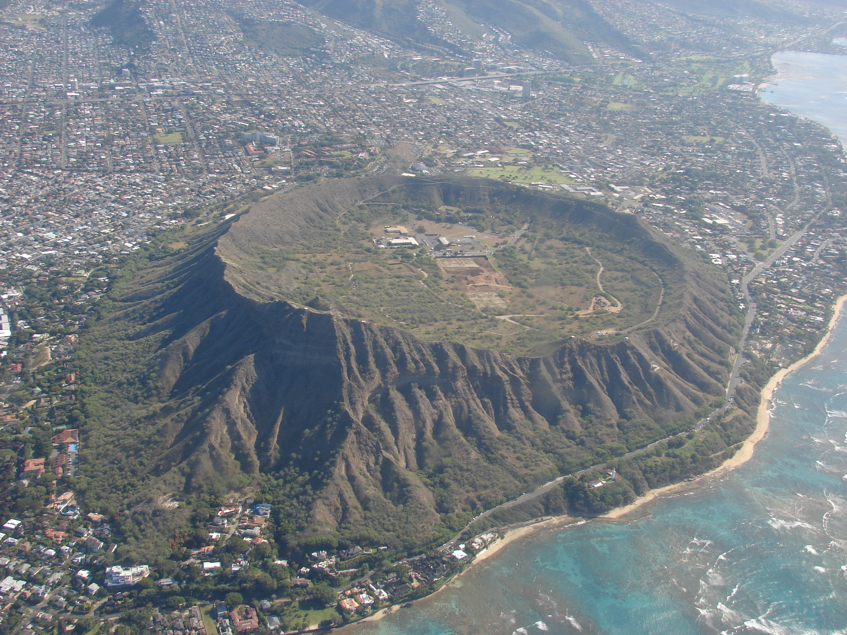 Diamond Head (habitat and aerial view). Location: Oahu, Honolulu